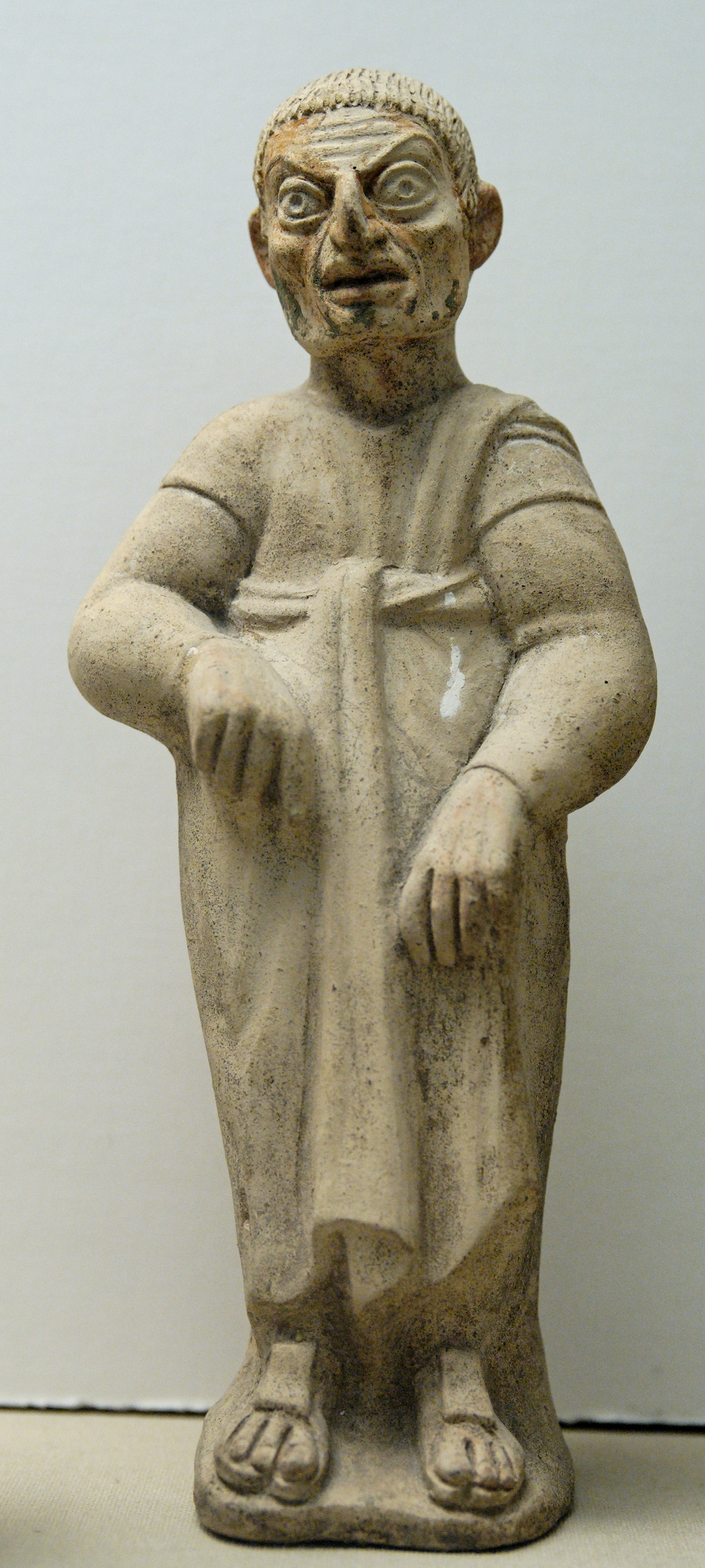 Actor wearing the mask of a Rustic. Terracotta figurine, Hellenistic artwork, 2nd century BC. From Canino, Italy.